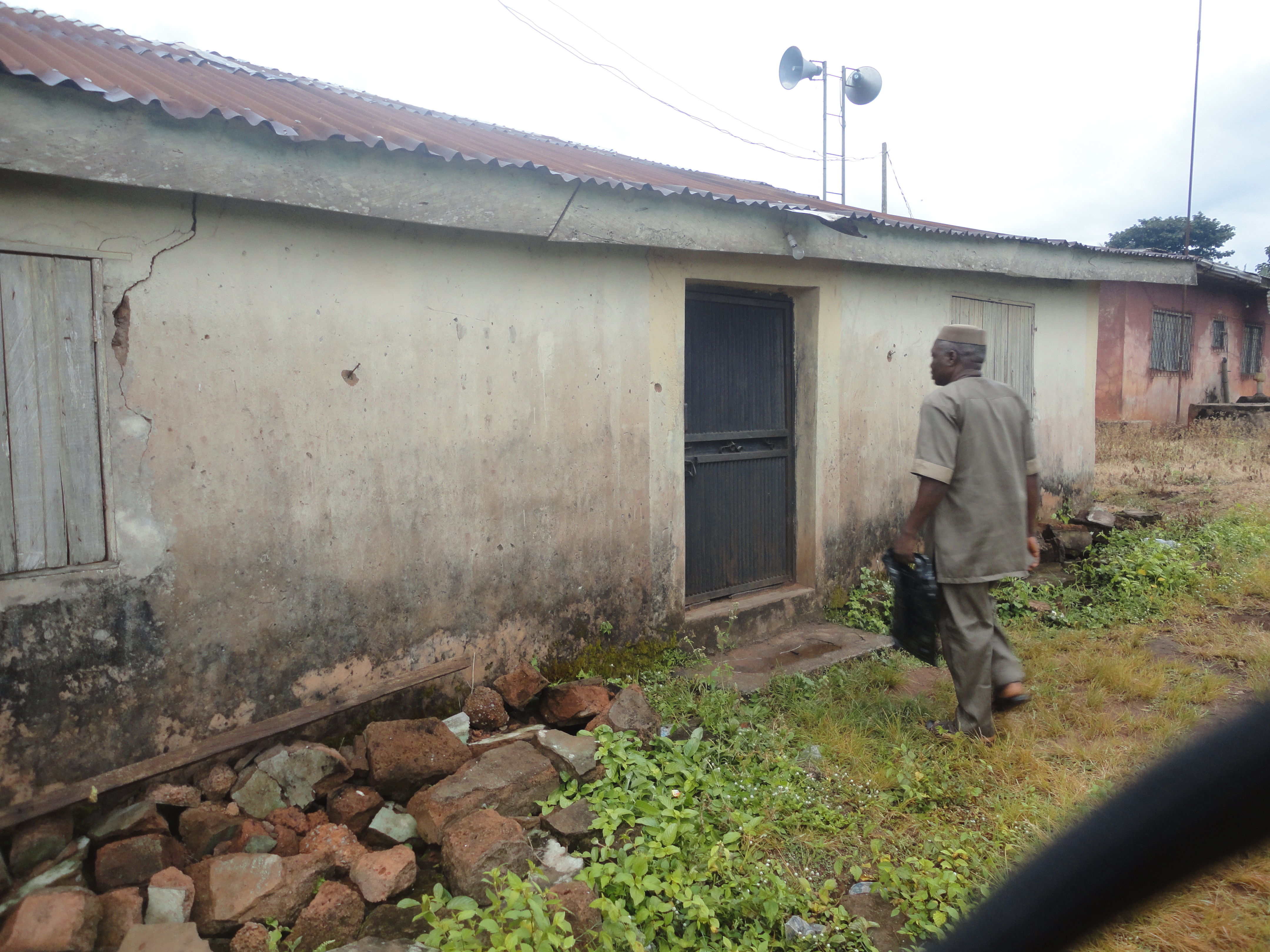 entrance to first Idoa mosque, built in 1918